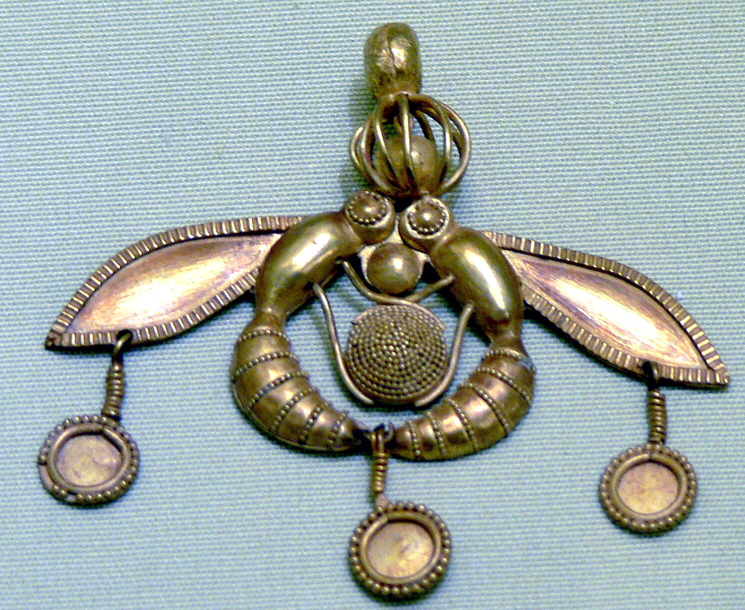 Archaeological Museum of Heraleion.So called “Bees of Malia”, identification uncertain: two bees (or hornets, or wasps) heraldically arranged around a honeycomb (or a honeycake), or eating/sucking a honey drop, or carrying a ball of mud. Gold pendant with appliqué decoration and granulation, Minoan artwork, 1700–1550 BC. Excavated by the French from the Chrysolakkos necropolis in Mallia, Crete, first published in 1930 (P. Demargne, BCH 54 (1930) pp.404-21 and pl.19), now in the Archaeological Museum of Herakleion. H. 4.6 cm (1 ¾ in.), W. 4.9 cm (1 ¾ in.).